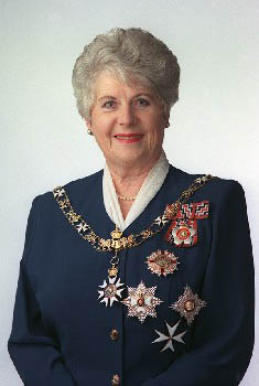 The Hon Dame Catherine Anne Tizard, GCMG, GCVO, DBE, QSO